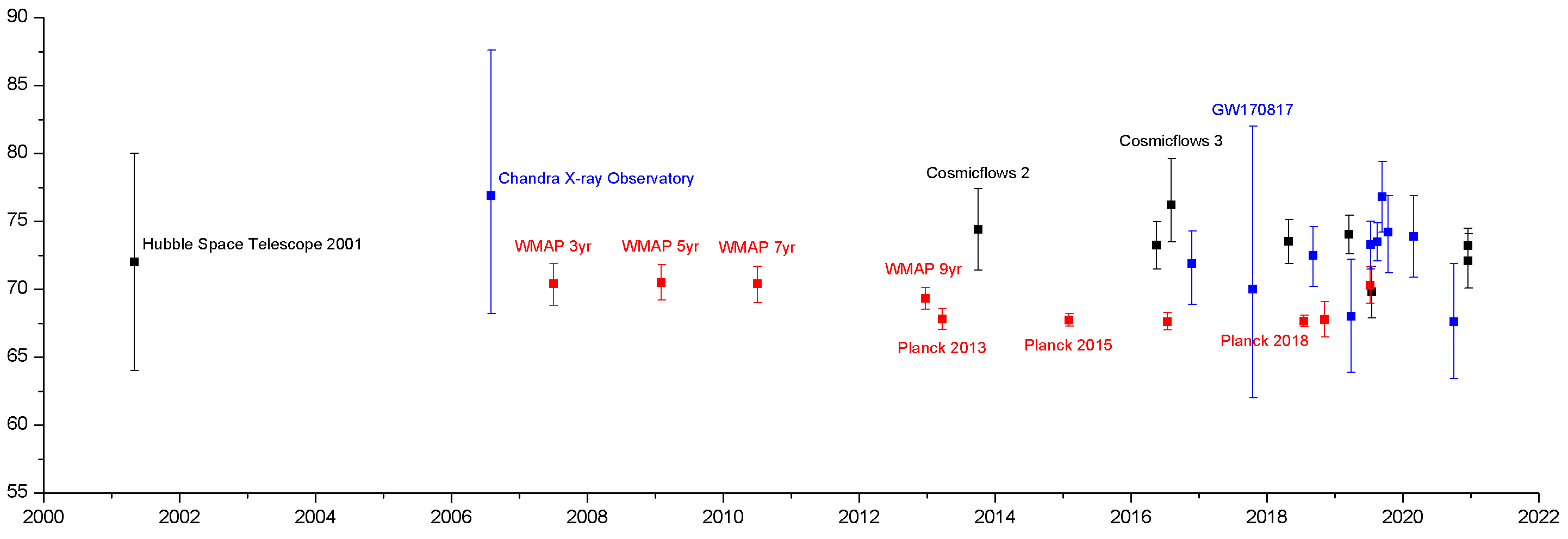 Selected estimated values of the Hubble constant, 2001-2019. Estimates in black represent calibrated distance ladder measurements, red represents early universe CMB/BAO measurements with ΛCDM parameters while blue are independent measurements.